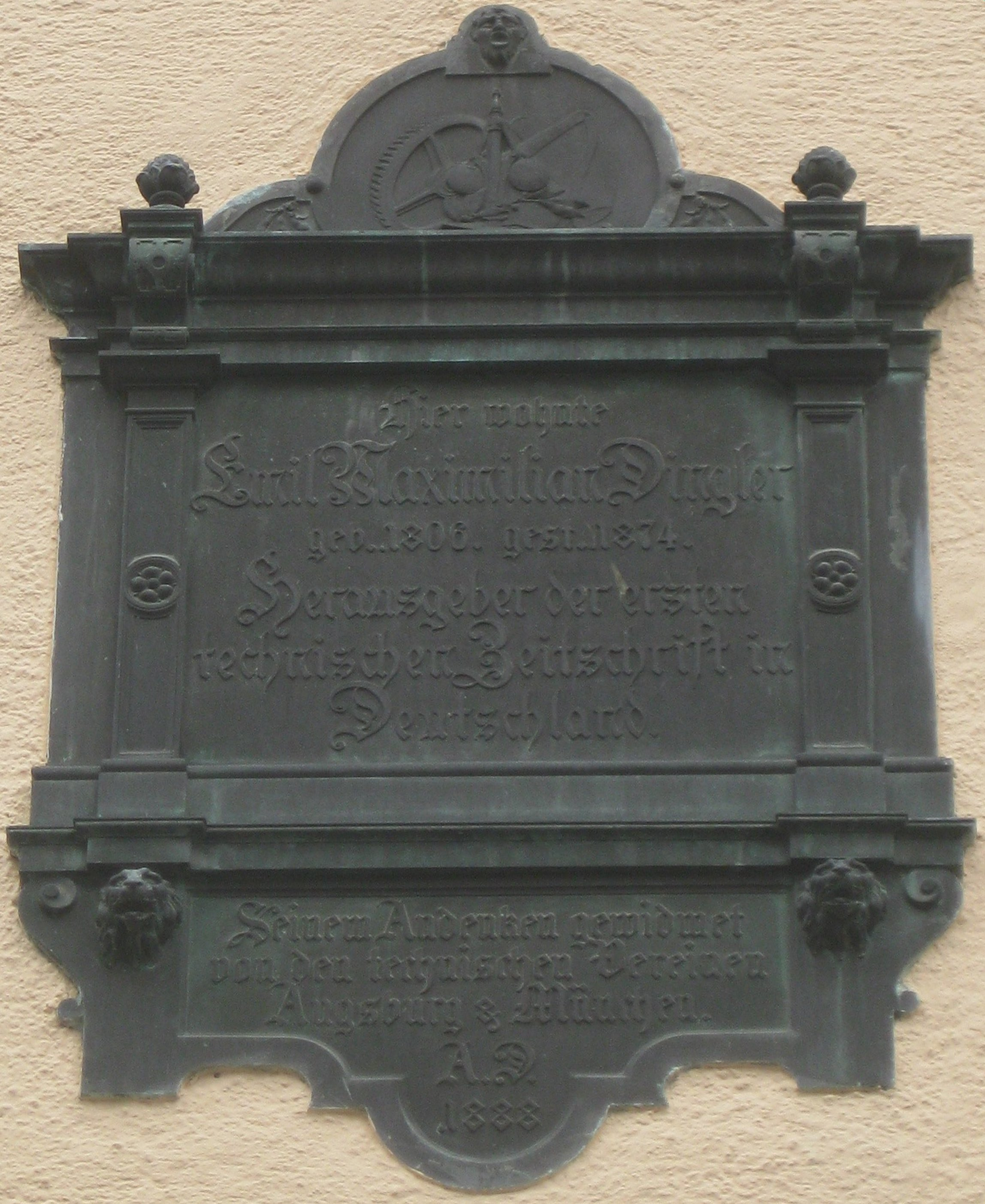 Plaque on Emil Maximilian Dingler's dwelling in Augsburg